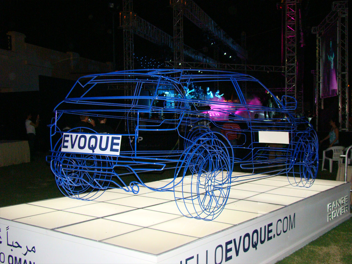 Range Rover supported the Westlife concert held at Hotel Intercontinental Muscat. An Evoque wireframe sculpture was on display.